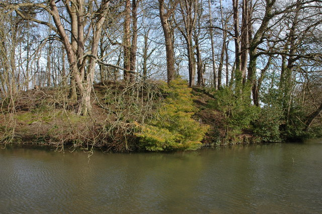 The Motte, Eardisland This motte at Eardisland is just north of the church, it is approximately 50 yards in diameter and 16 feet high and is surrounded by a moat.